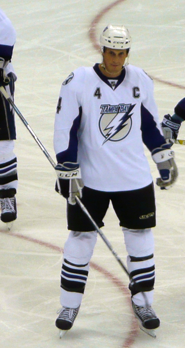 Vinny Lecavalier skates against the New Jersey Devils, December 2009.